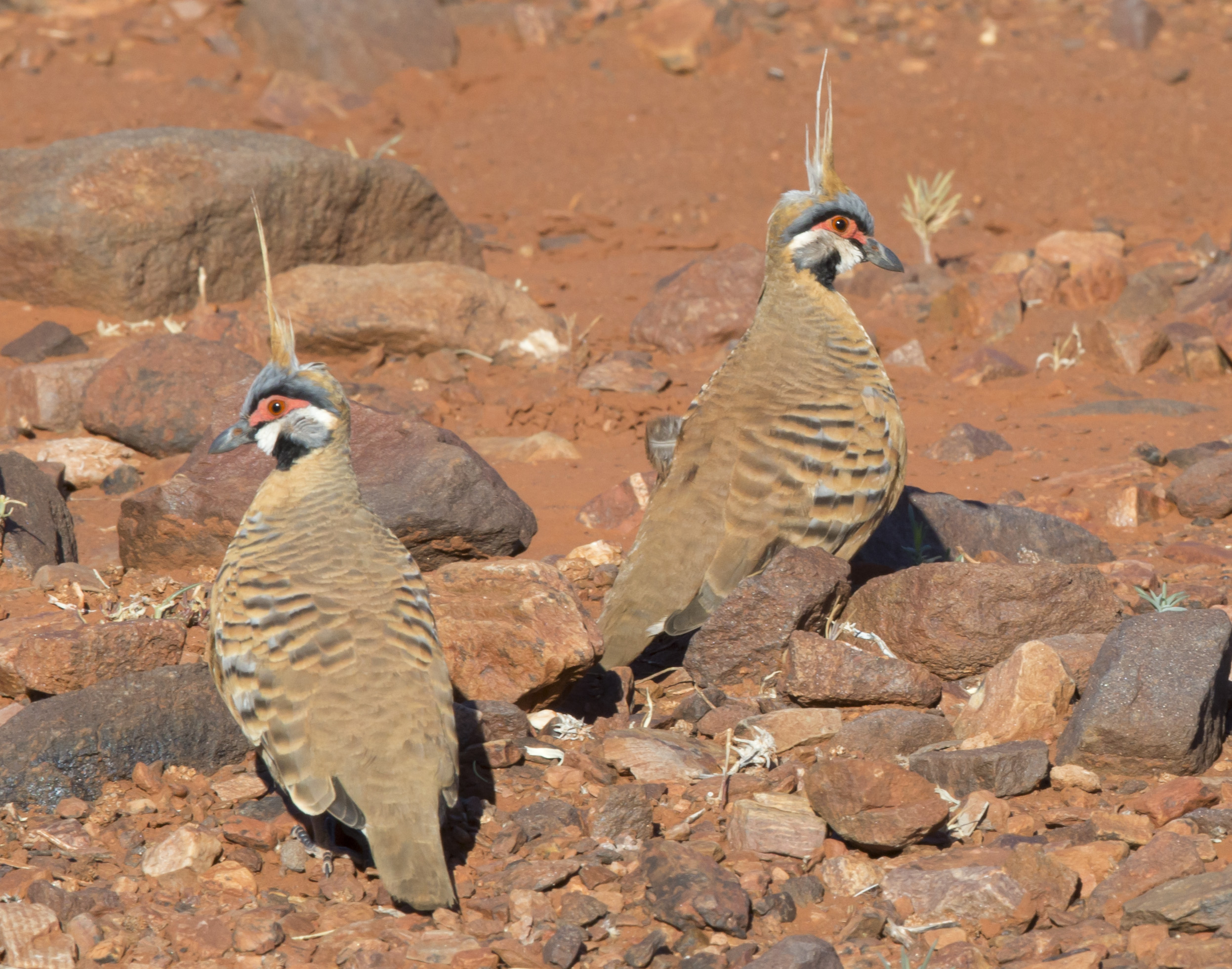 Spinifex pigeons get you in. Very cute and tame